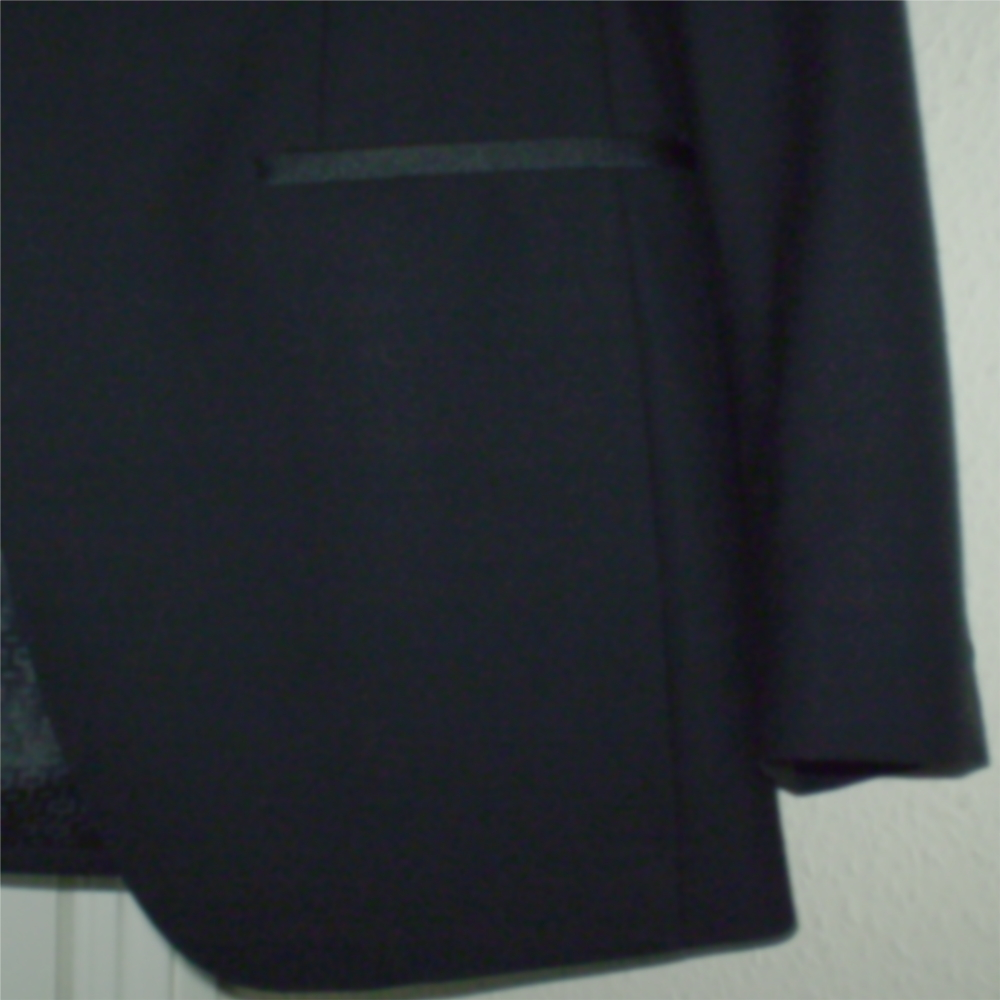 A picture illustrating a jetted pocket on a dinner jacket